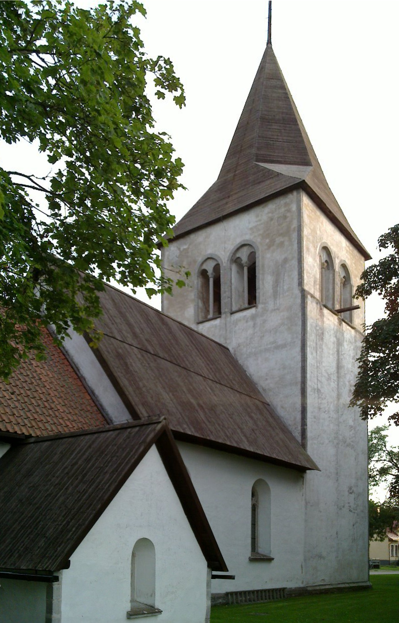 Church of Buttle, Gotland, SE